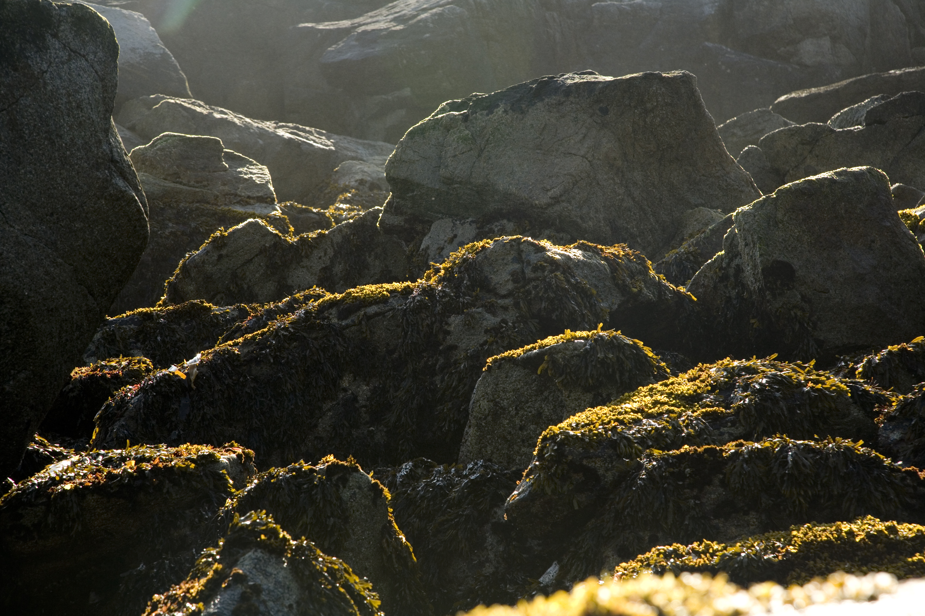 Chowiet Island, Alaska, beach kelp [1]